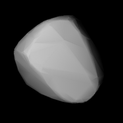 3D convex shape model of 1189 Terentia, computed using light curve inversion techniques. J. Hanuš, J. Ďurech, M. Brož, B. D. Warner (June 2011). "A study of asteroid pole-latitude distribution based on an extended set of shape models derived by the lightcurve inversion method". Astronomy and Astrophysics 530: A134. ISSN 0004-6361. arXiv